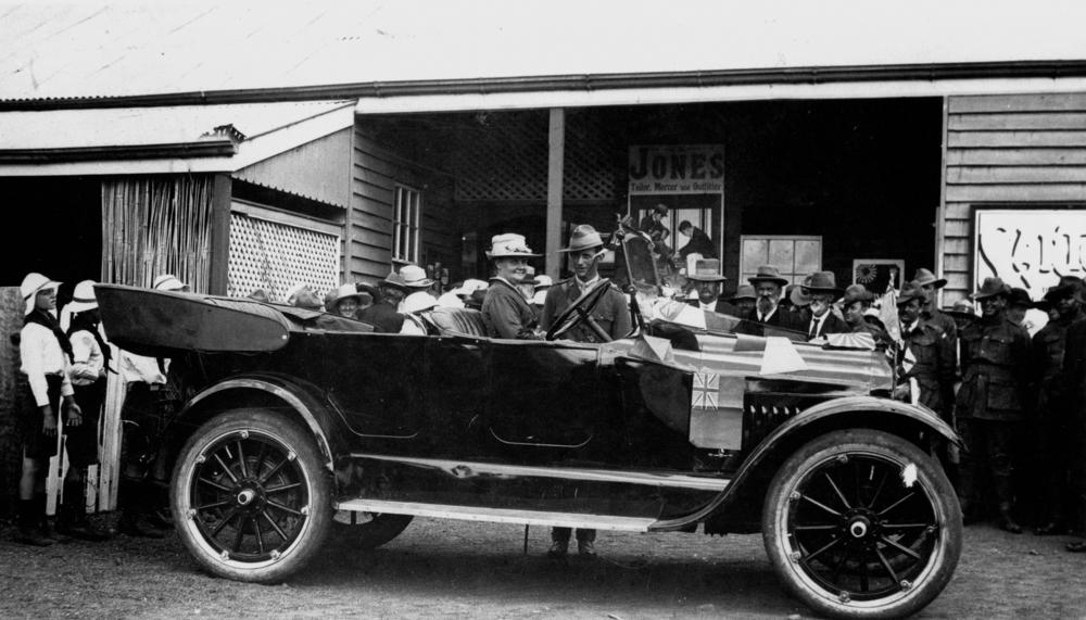 Arrival of Mrs Wheeler to unveil the School War Memorial at Springsure, ca. 1920 Annie Margaret Wheeler , soldiers' welfare worker, was born on 10 December 1867 at Saunders Station, Dingo. She was educated at a Rockhampton convent school and In 1896 married Henry Gaudiano Wheeler of Cooroorah Station, near Blackwater. After his death in 1903 she once again made Rockhampton her home. In 1913 she took her only daughter, Portia, to England to complete her education. At the outbreak of war in 1914 Mrs Wheeler worked as a probationer nurse in a hospital in Sussex. Moving to London Mrs Wheeler endeavoured to contact all soldiers from Central Queensland. She kept a detailed card index on them, corresponded with servicemen on the battlefield, forwarded packages and mail, provided for their needs and supervised the care and comfort of those in hospital. Mrs Wheeler's card indexes to Central Queensland soldiers are held by the John Oxley Library (OM 82-67). Sign on shopfront in background reads: Jones, Tailor, Mercer and Outfitter.